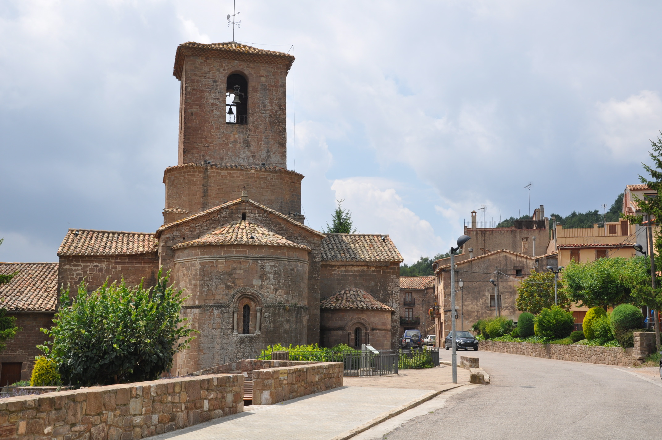 Church and monastery of "Santa Maria de l'Estany" in l'Estany (Comarca of Bages, Catalonia, Spain).